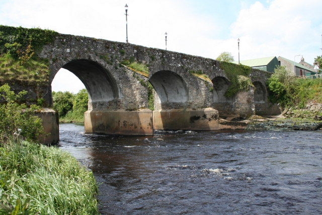 The Ardstraw bridge viewed from downstream. That's the River Derg which flows under this bridge.